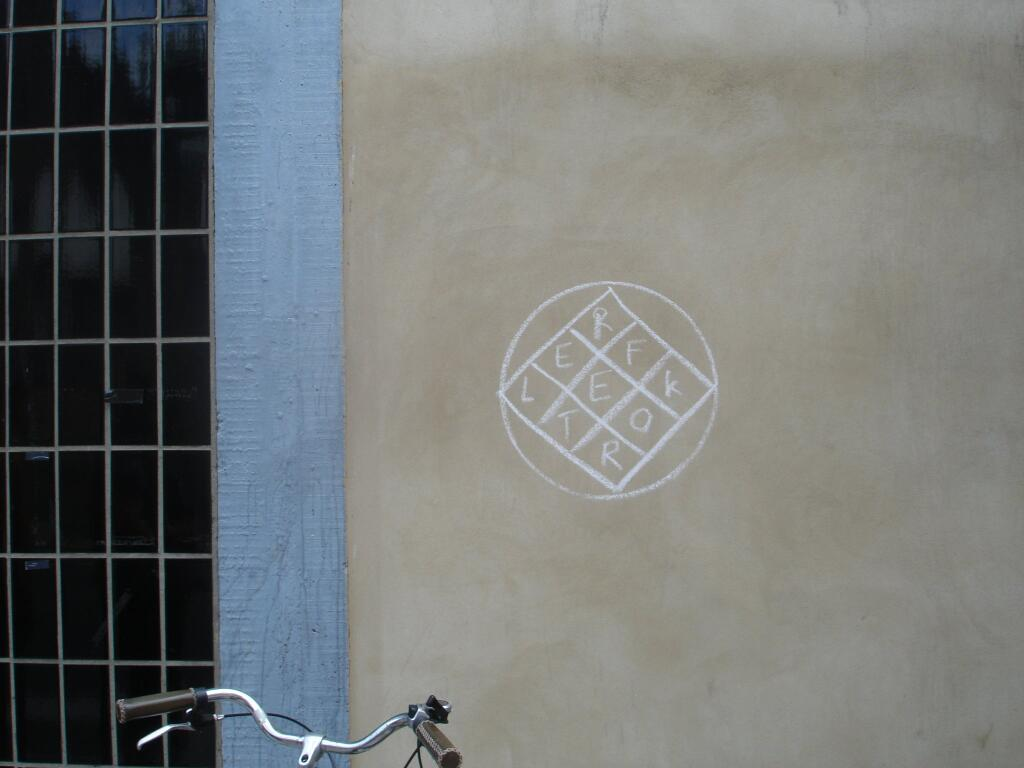 Logo written on a wall to the left of Wapping station, London, as part of the guerilla marketing campaign for the Arcade Fire album "Reflektor".